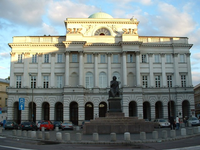 Warsaw Scientific Society, Polish Academy of Sciences Former Staszic Palace Author: Daniel Matysiak (